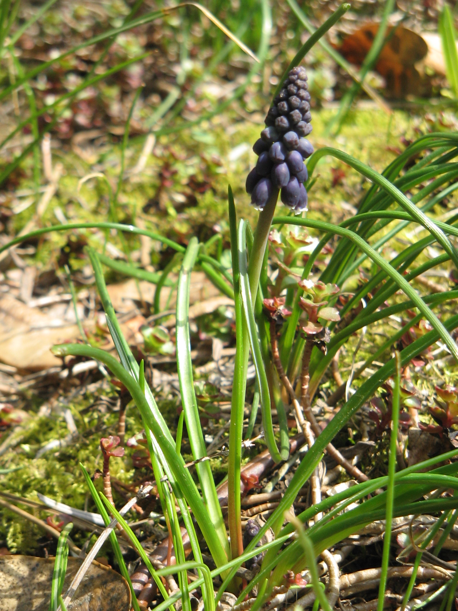 Muscari neglectum